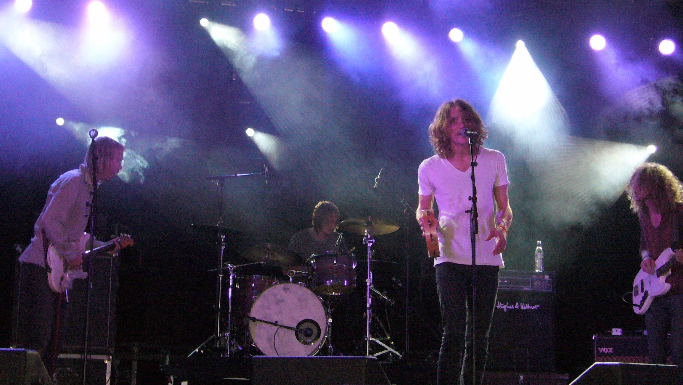 Swedish rockband Dungen playing at Malmöfestivalen